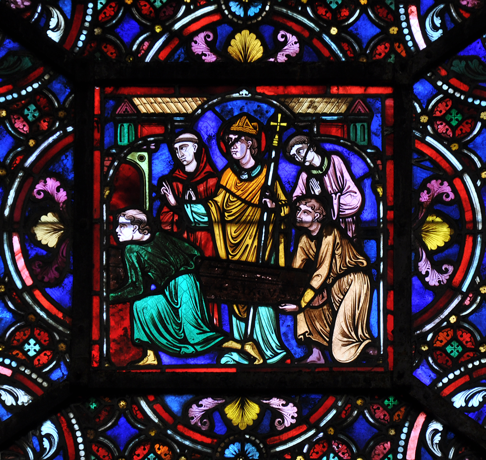 Detail of a stained glass window in the Cathédrale de Soissons : the history of Saint Sixte.Saint Sinice (Sinicius), now bishop of Reims, buries Saint Sixte. 13th or 14th century.